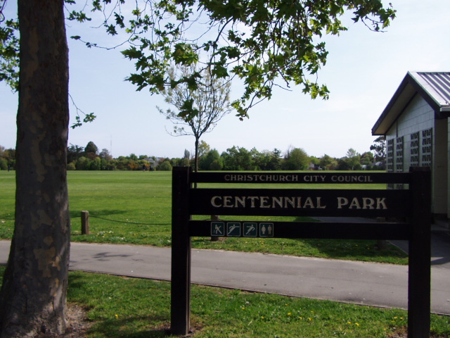 Centennial Park from the Lyttelton Street end. Author